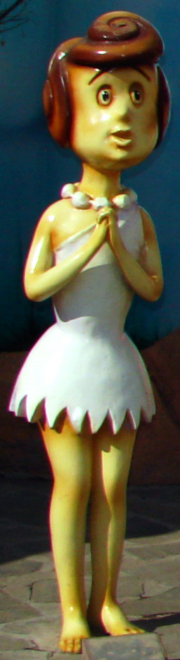 Wilma Flintstone figurine at the Ankara Public Amusement Park losslessly cropped from original File:Harikalar_Diyari_Flintstones_06020_nevit.jpg